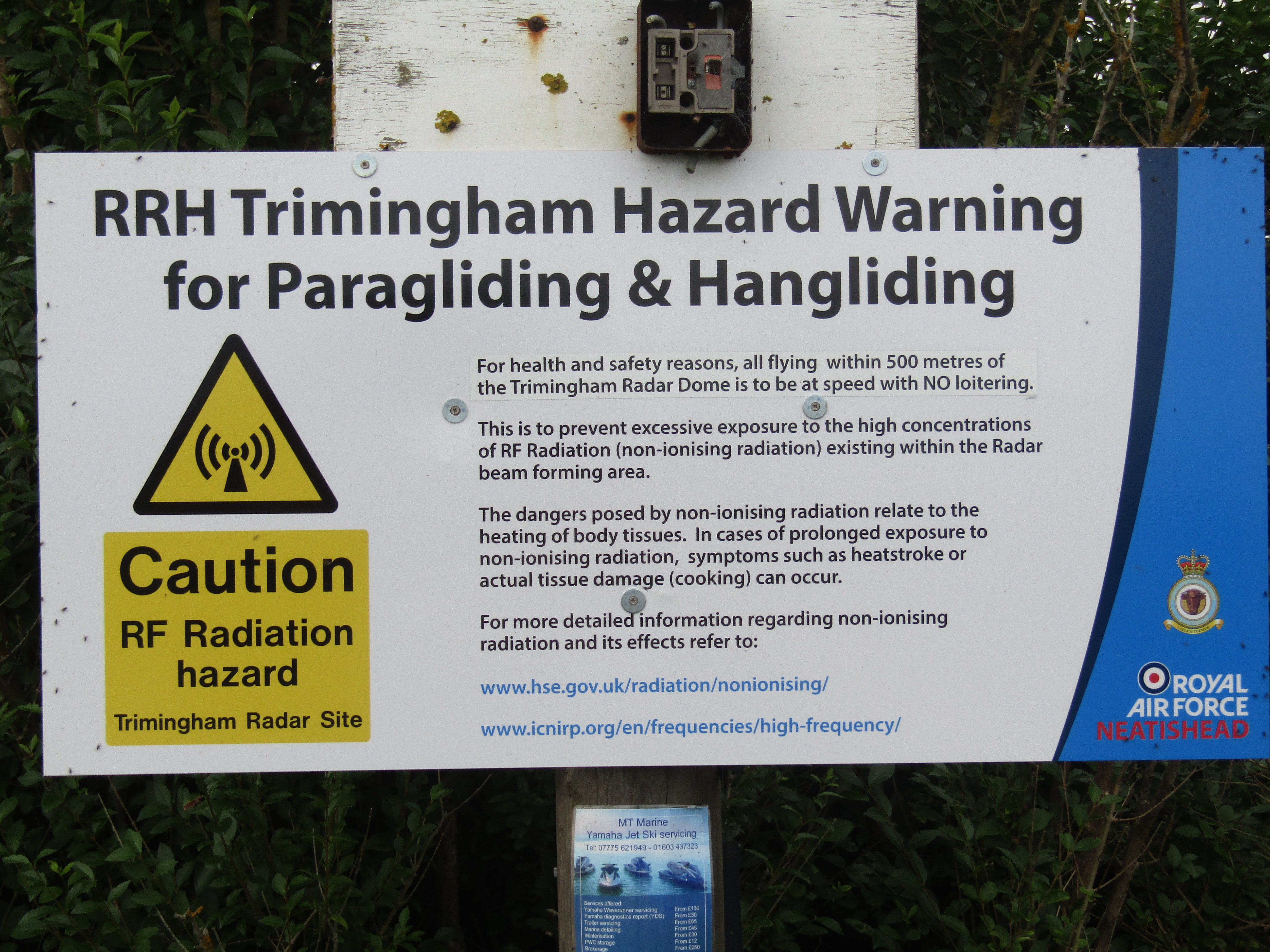 A 'RF-Radiation Hazard' warning sign on the cliff top footpath above Trimingham beach located in the parish of Mundesley, Norfolk, England.